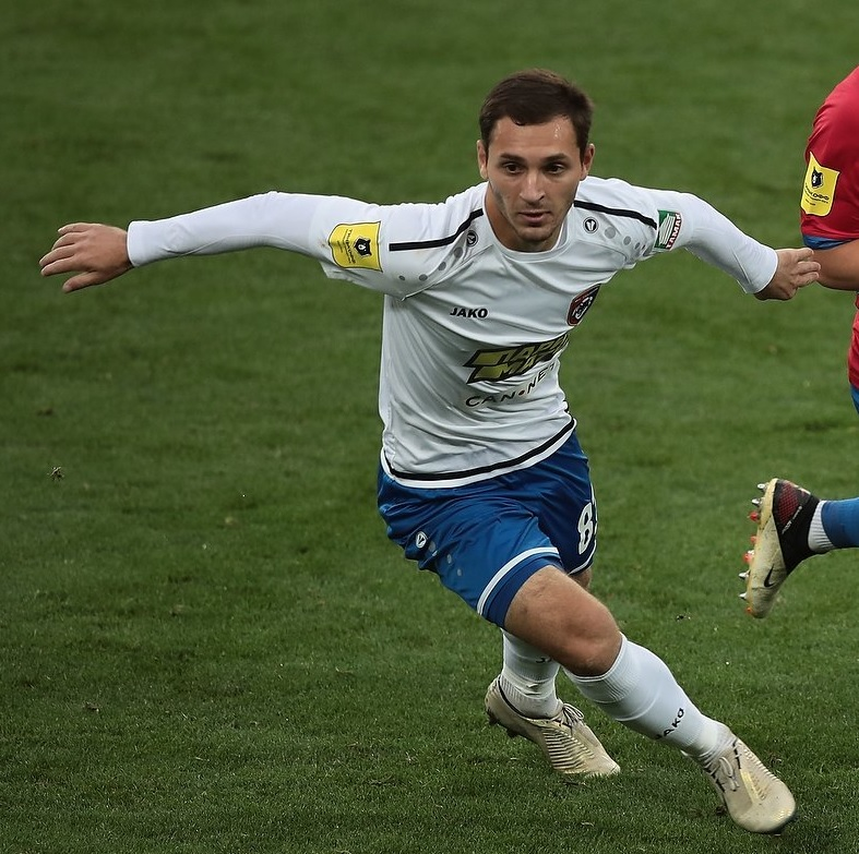 Vladimir Kabakhidze with FC Tambov in a game against PFC CSKA Moscow.